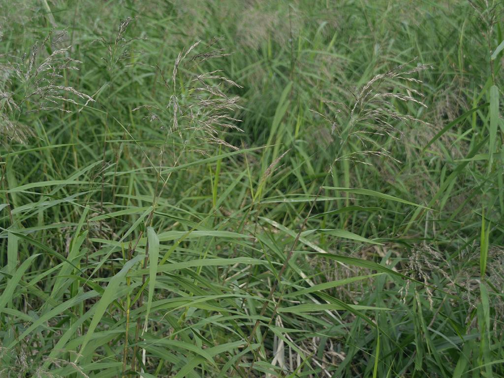 Phragmites japonica(Poaceae) Japanese name:Turuyosi：ツルヨシ Date;2009,10.11;Tanabe City, Wakayama prefecture, Japan Author;Keisotyo